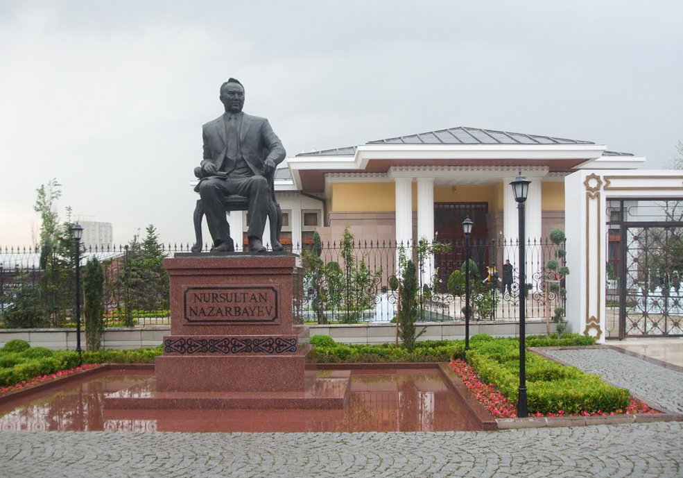 Nursultan Nazerbayev Monument, Gençlik Park